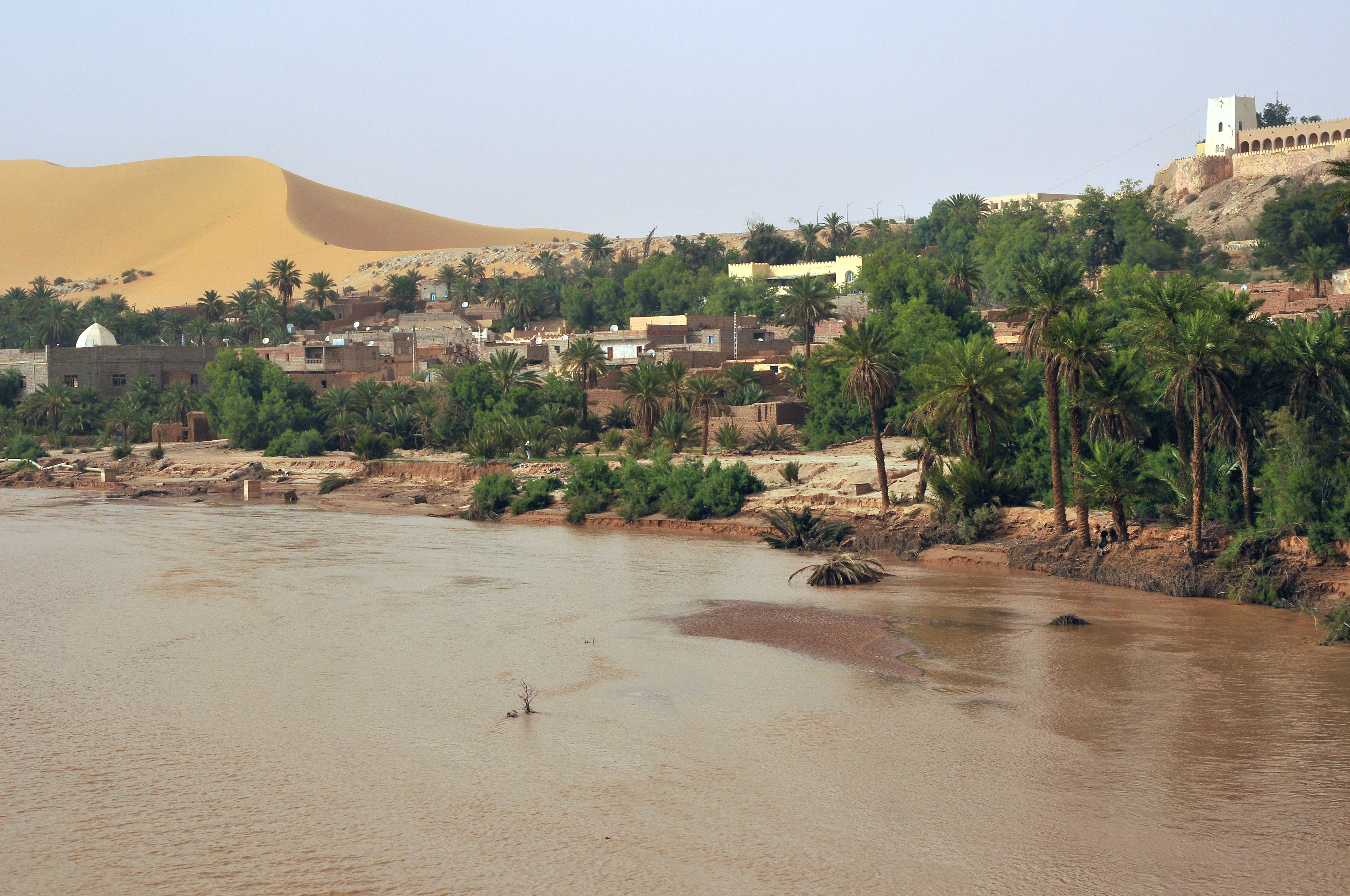 Town's edge,at the bank of wadi Saoura. Beni Abbes, Bechar, Algeria